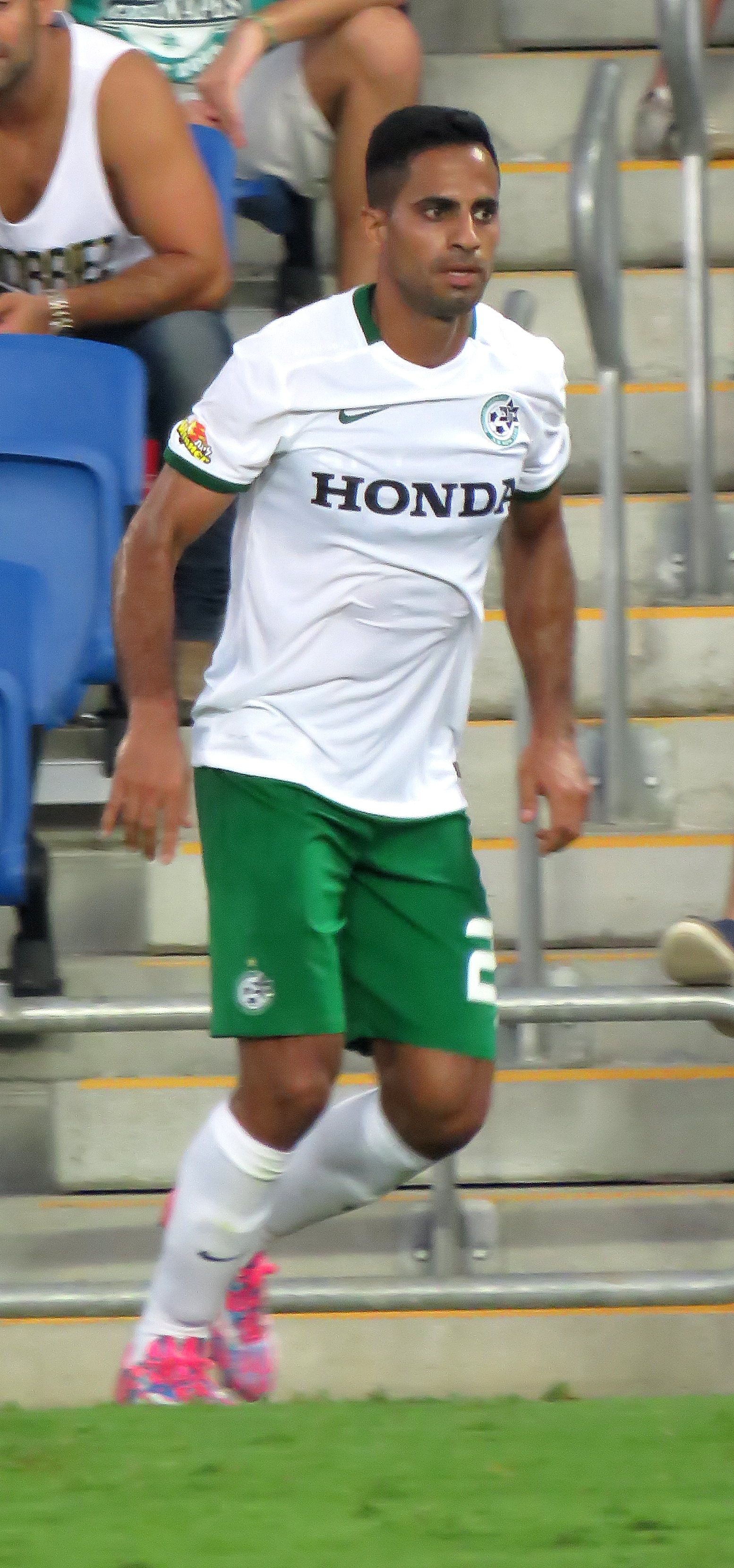 Hapoel Ra'anana vs. Maccabi Haifa F.C., 3 October, 2015